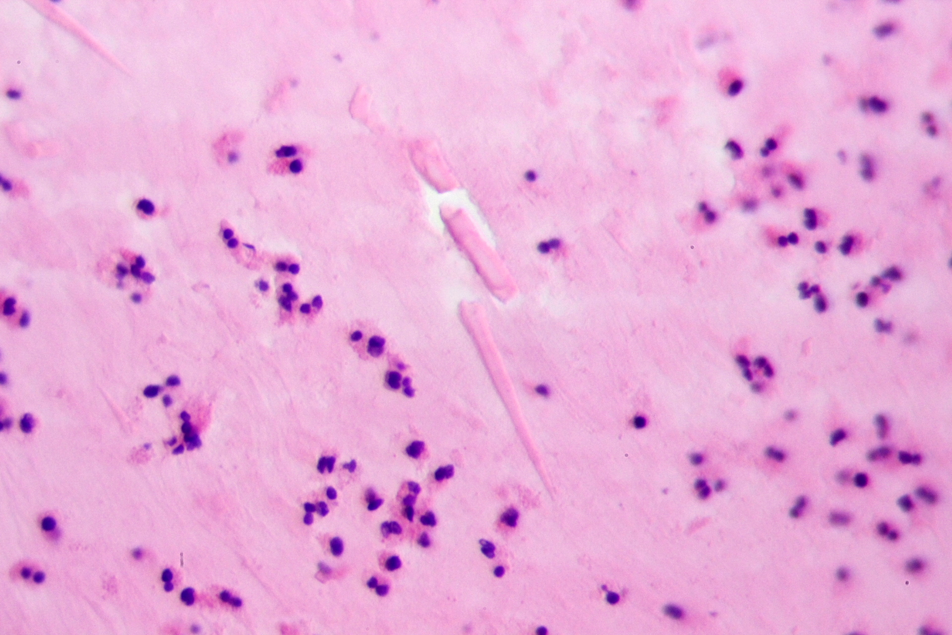 Lakes of mucus with eosinophils and Charcot-Leyden crystals in allergic sinusitis.